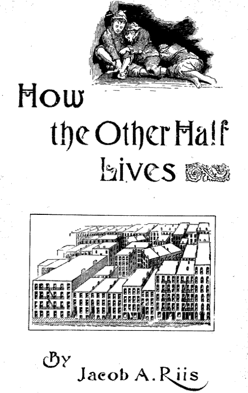 Front cover of How the Other Half Lives